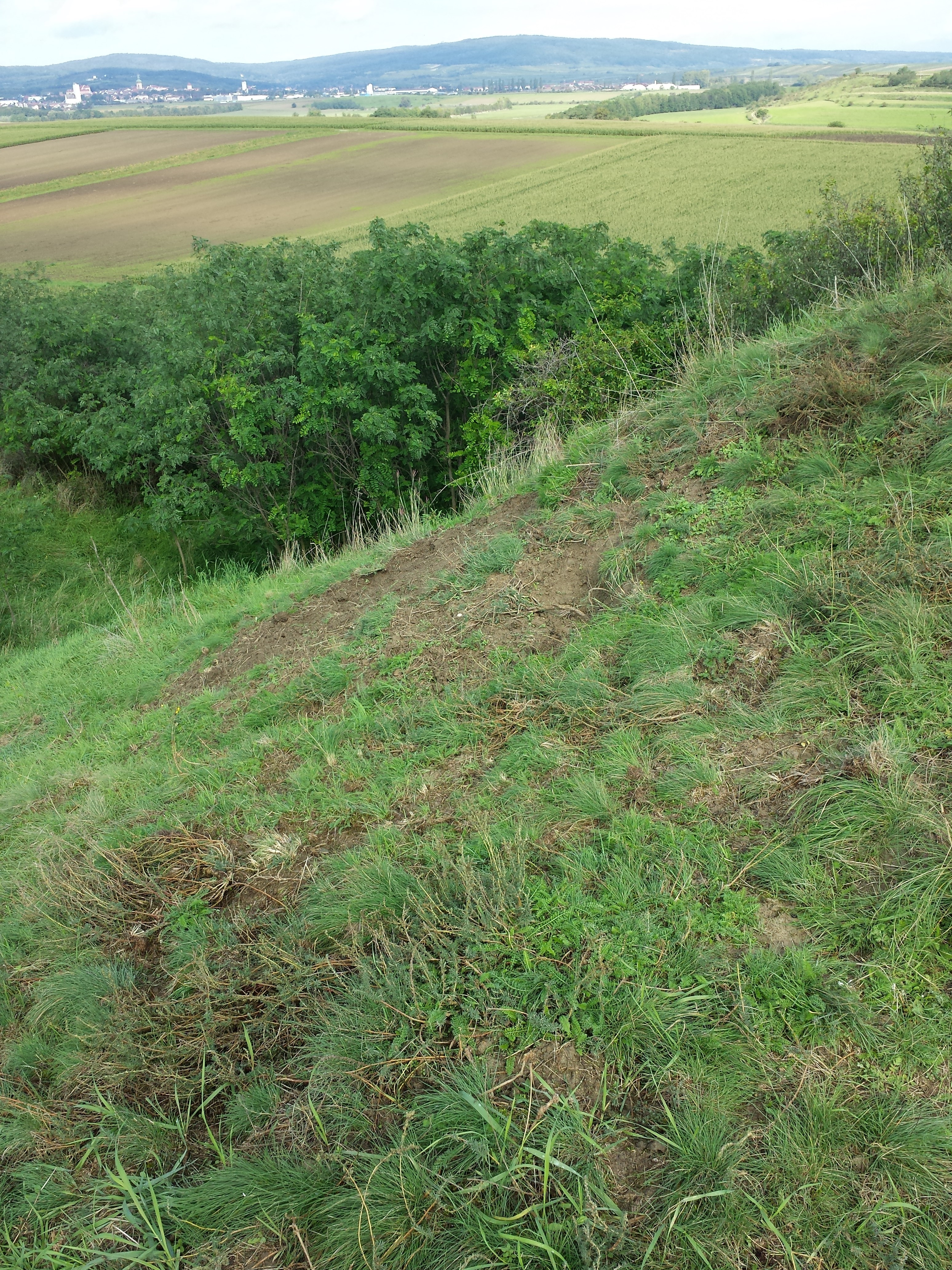 Gupferter Berg (former motte-and-bailey castle) near Unternalb, district Hollabrunn, Lower Austria View from the platform of the motte towards Retz. In the foreground Bassia prostrata, at the slope invasive Robinia pseudoacacia.